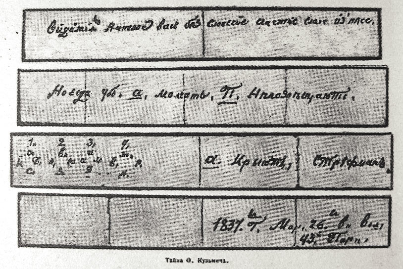 "Secret" of Feodor Kuzmich